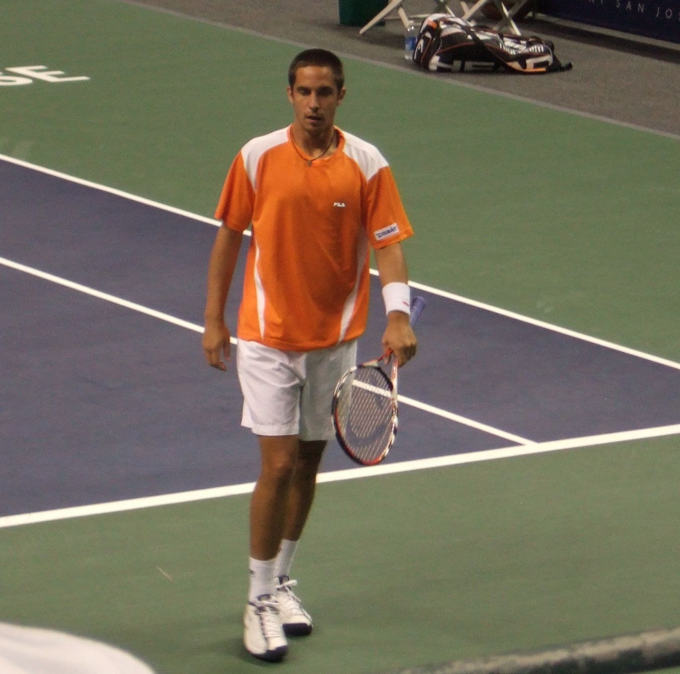 Denis Gremelmayr playing at the SAP-Open in San-Jose 2008